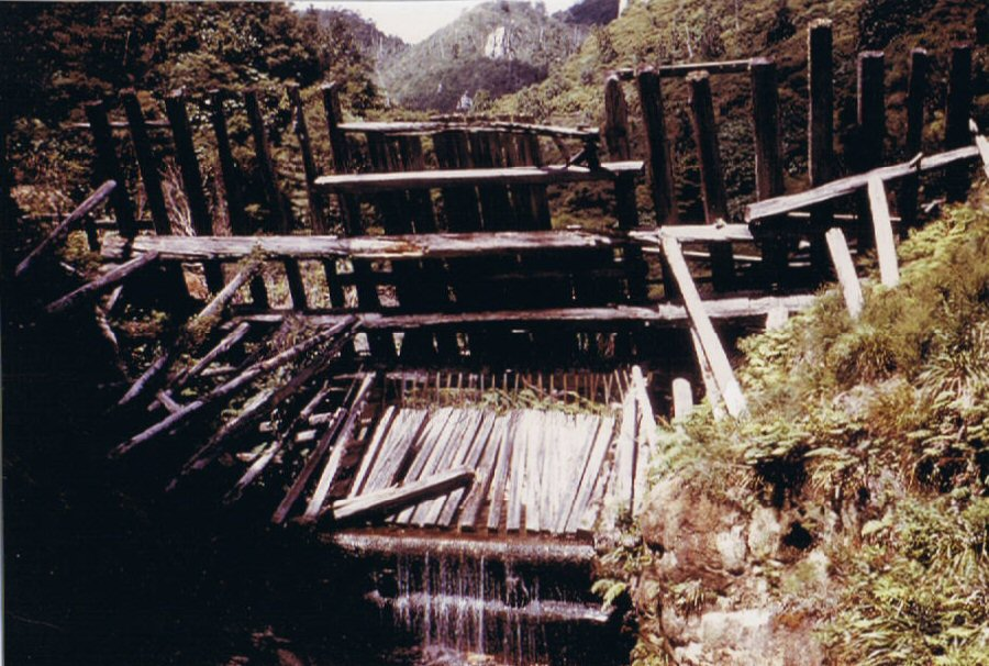 Kauri dam on Great Barrier Island, New Zealand, March 1967.